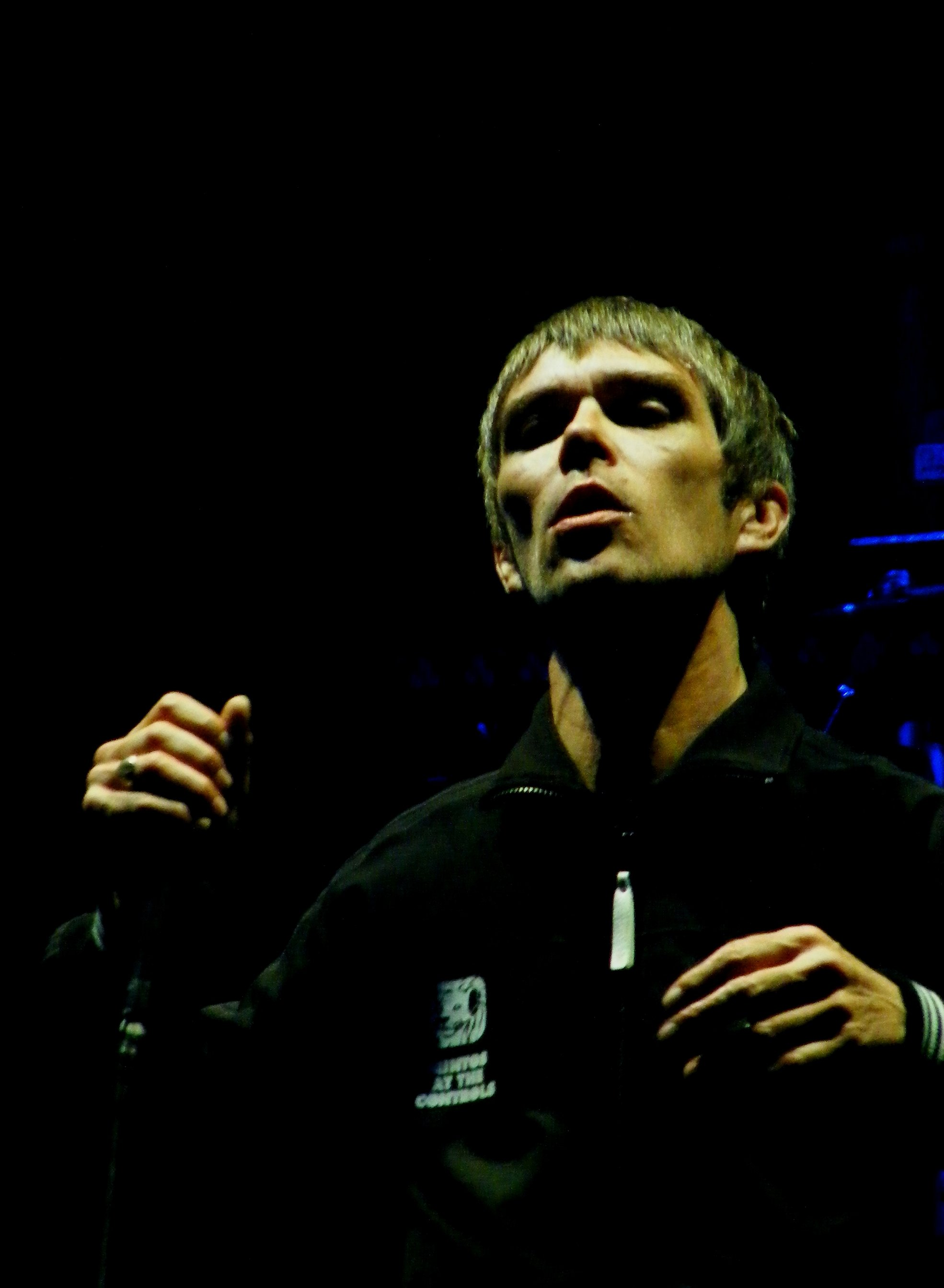 Ian Brown at Platt Fields Park, Manchester, on Friday the 11th of June 2010